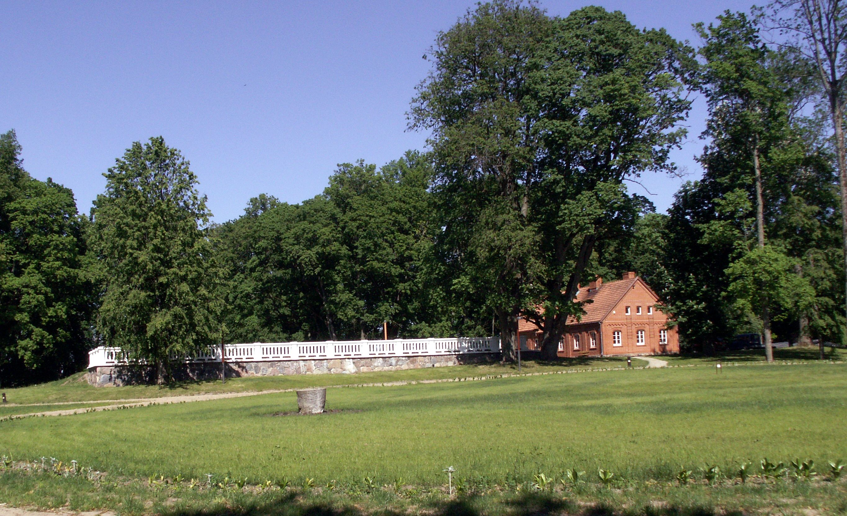 Kurtuvėnai manor, Šiauliai district, Lithuania